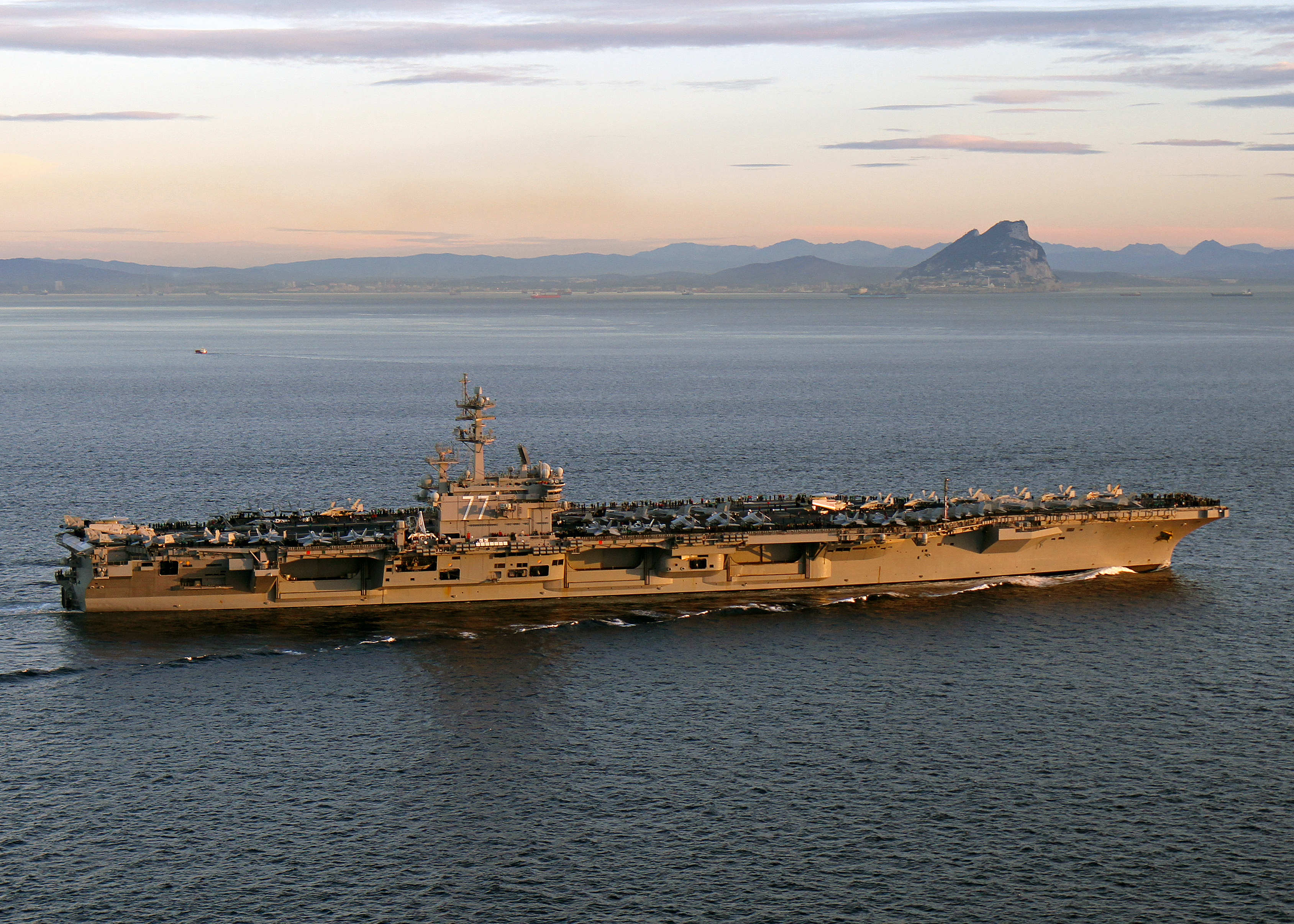 MEDITERRANEAN SEA (Feb. 27, 2014) The aircraft carrier USS George H. W. Bush (CVN 77) transits the Strait of Gibraltar Thursday, Feb. 27, 2014. George H.W. Bush is on a scheduled deployment supporting maritime security operations and theater security cooperation efforts in the U.S. 5th and 6th Fleet areas of responsibility. (U.S. Navy photo by Lt. Juan David Guerra/Released) 140227-N-AP620-003 Join the conversation navylive.dodlive.mil